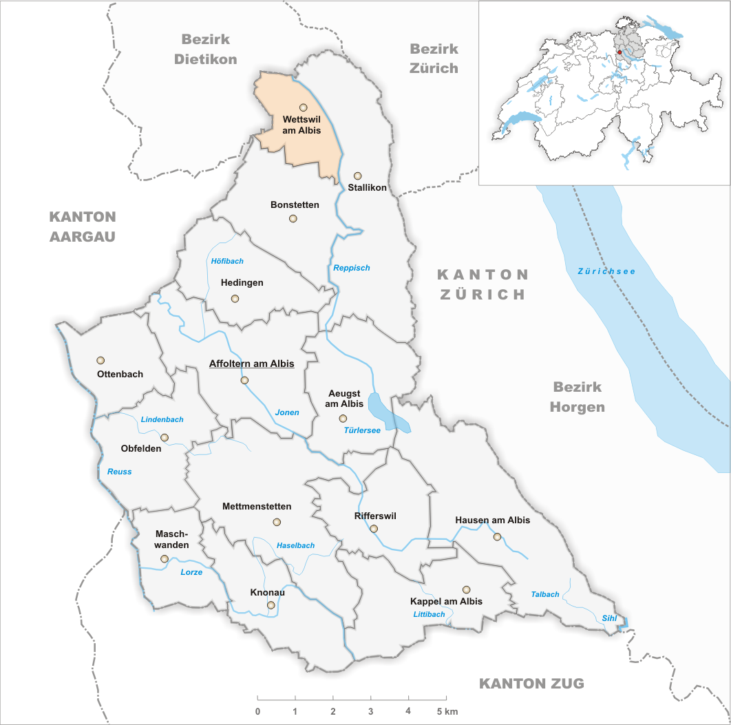 Municipality Wettswil am Albis